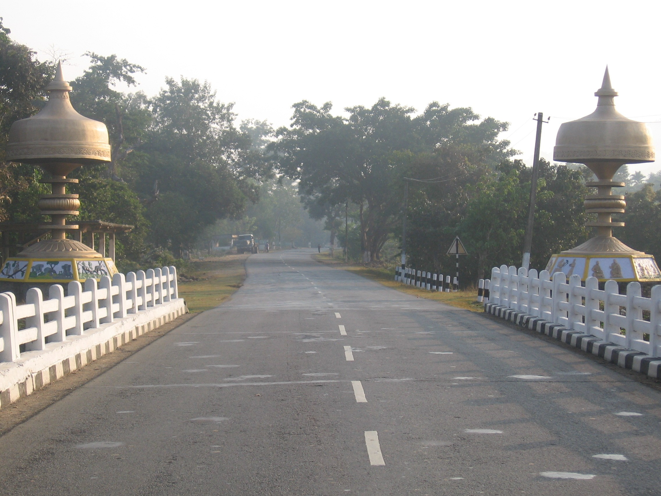 Welcome notice to all visitors through Kaziranga. These two Xorais adorn the bridge near Kohora range on the approach Kaziranga National Park from the west to the east along the national highway from Koliabor to Jorhat. Photo taken using a Canon Powershot A 520